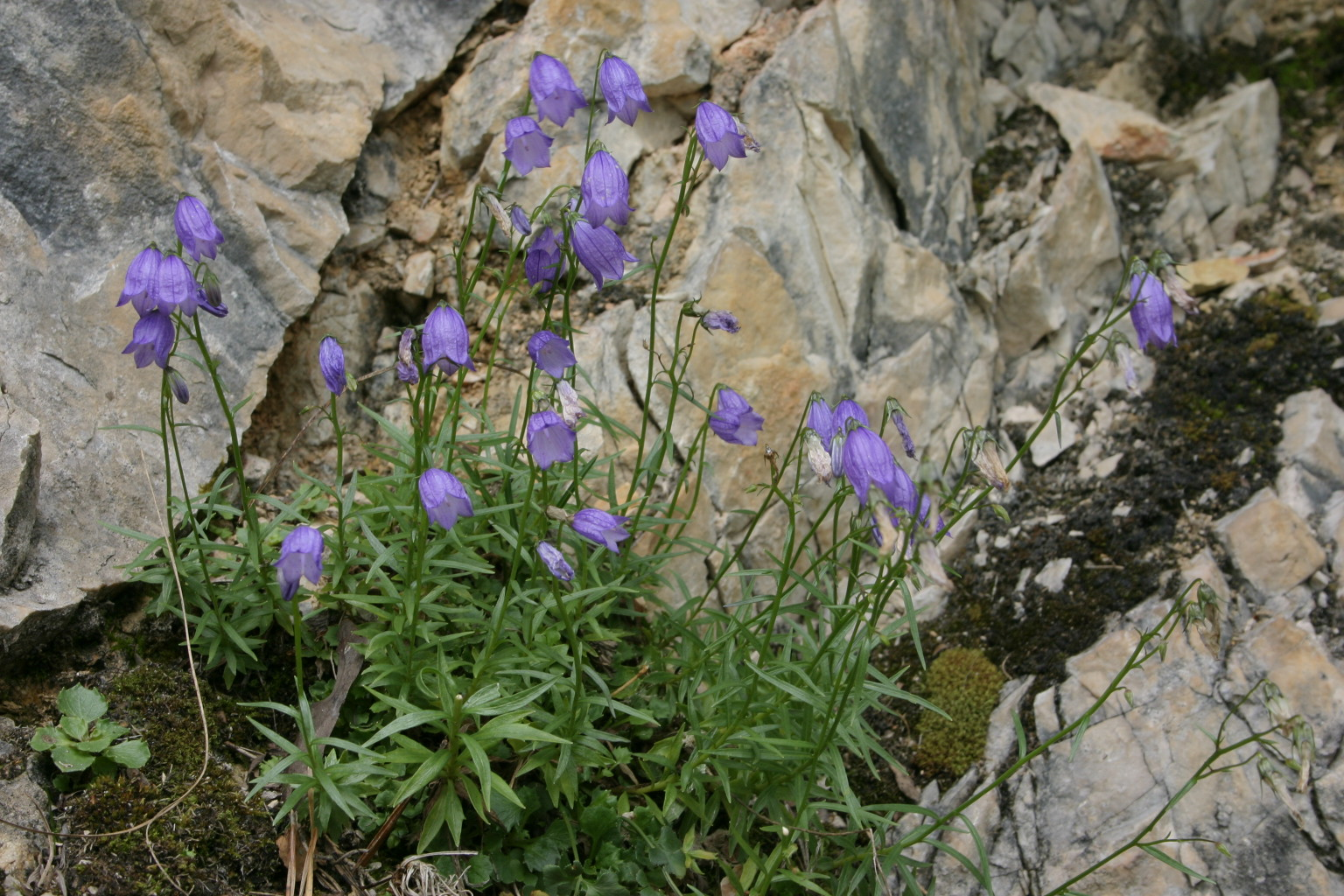 Campanula cespitosa